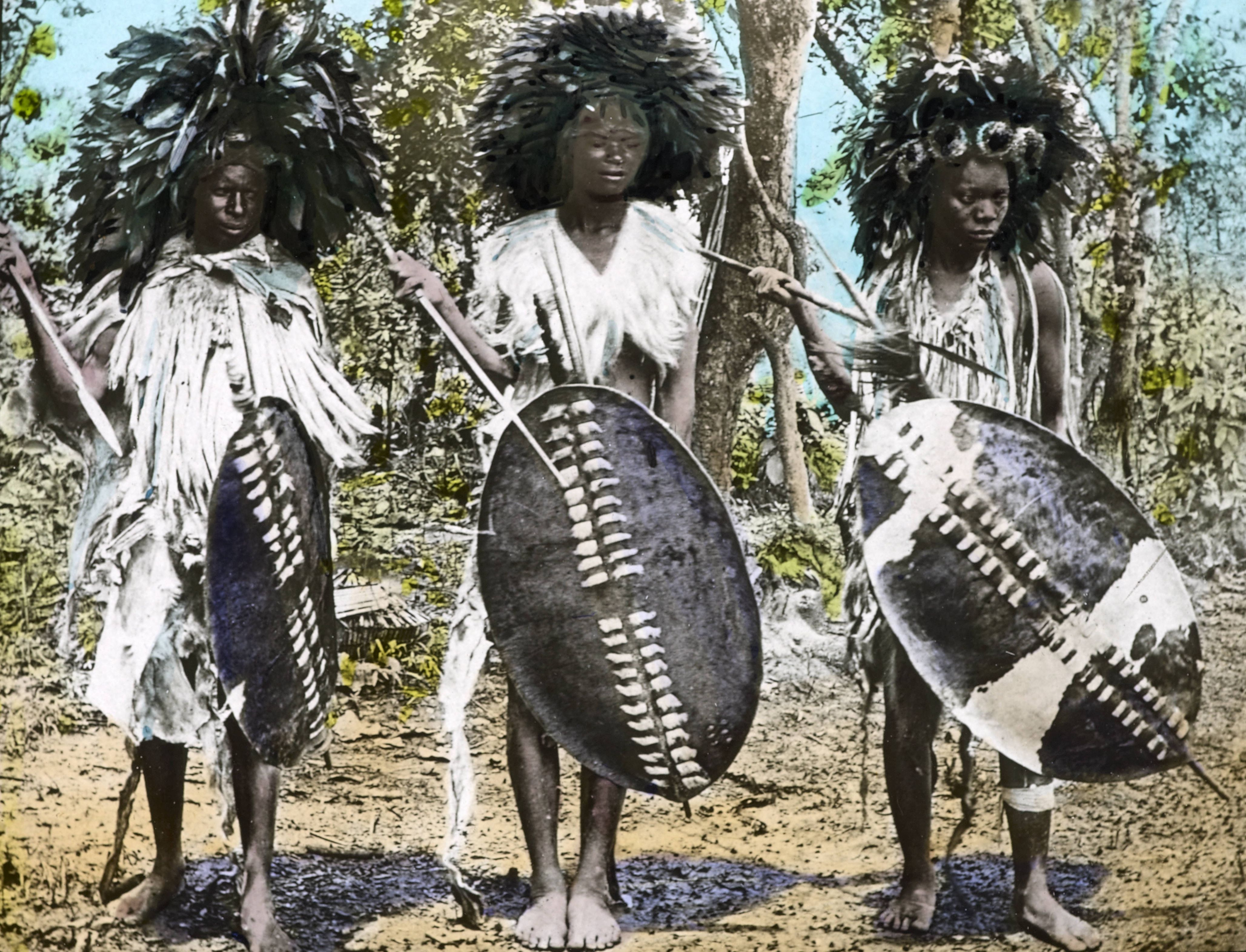 "Young Ngoni Warriors, Livingstonia" Malawi, ca.1895 Photograph of three young Ngoni warriors, dressed in traditional tribal dress, including head dress. The young men are all carrying a spear and shield. They are standing in a clearing with trees in the background.; The Ngoni people are an ethnic group living in Malawi, Mozambique, Tanzania and Zambia. Their origins can be traced to the Zulu people of kwaZulu-Natal in South Africa. Photographer: Unknown Filename: imp-cswc-GB-237-CSWC47-LS3-1-026.tif Coverage date: circa 1895 Part of collection: International Mission Photography Archive, ca.1860-ca.1960 Type: images Part of subcollection: Photographs from the Centre for the Study of World Christianity, University of Edinburgh, U.K., ca.1900-ca.1940s Repository name: Centre for the Study of World Christianity Archival file: impaunpub_Volume7/1412.url Repository address: The University of Edinburgh School of Divinity, New College, Mound Place, Edinburgh EH1 2LX, United Kingdom Geographic subject (country): Malawi Format (aacr2): 1 lantern slide : 8 x 8 cm. Geographic subject (continent): Africa Rights: Contact the repository for details. Part of series: Elmslie of the Wild Ngoni LS3/1 Repository Subject (lcsh Keyword): Tribes; Ethnic costume Date created: circa 1895 Publisher (of the digital version): University of Southern California. Libraries Subject (aat genre): group portraits Format (aat): lantern slides Legacy record ID: impa-m68404 Access conditions: File: GB 237 CSWC47/LS3/1/26